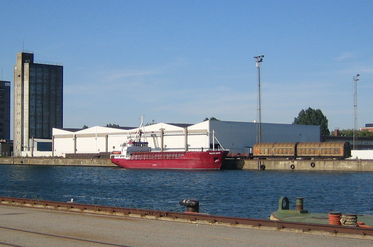 The BALTIC WIND in Malmö east harbour, Sweden. IMO Number: 7013721 MMSI Number: 354101000 Callsign: HO3616 Length: m Beam: m